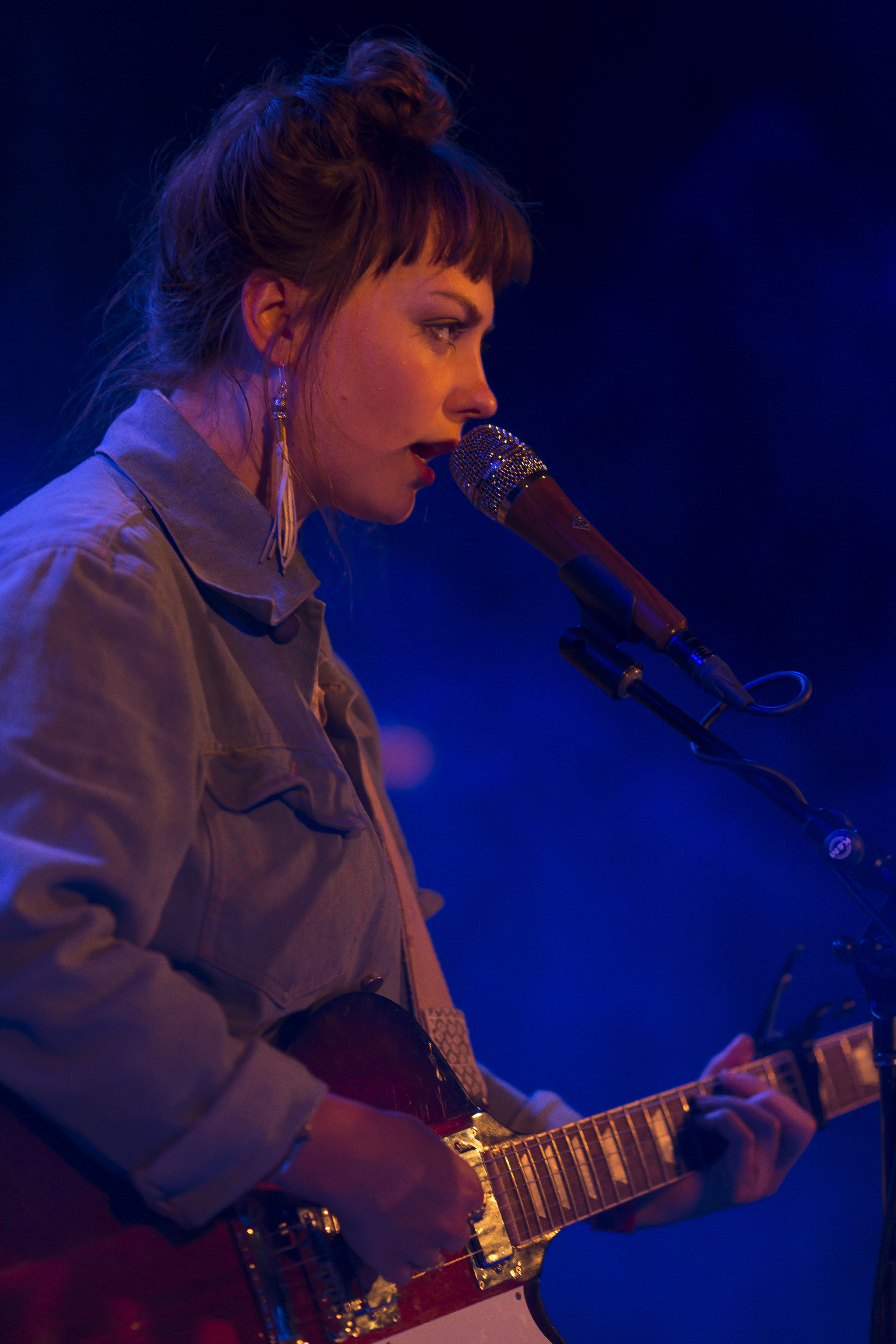 Angel Olsen @ OAF - 3rd Feb 2015